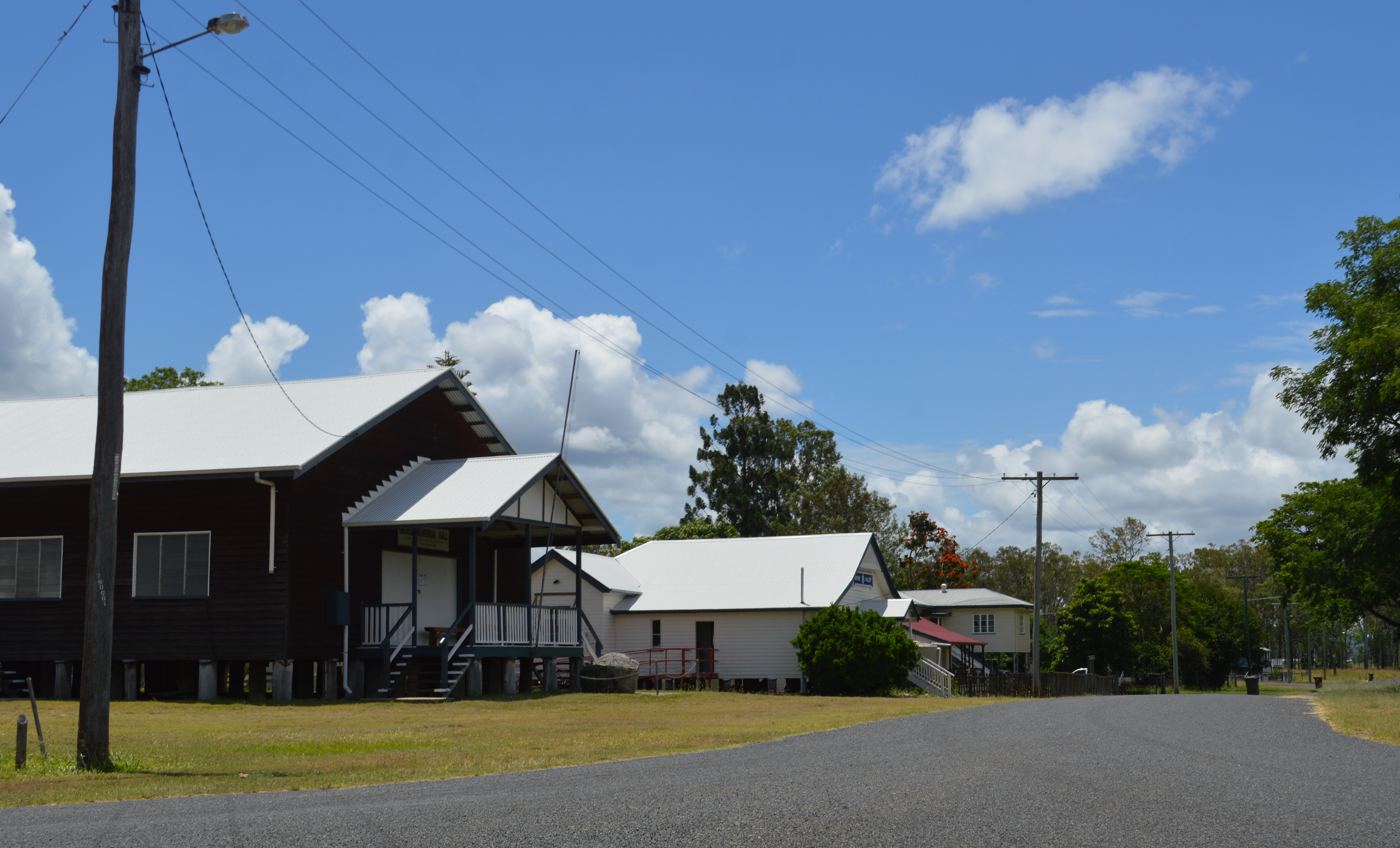 Railway Terrace, a street of Ubobo, Queensland